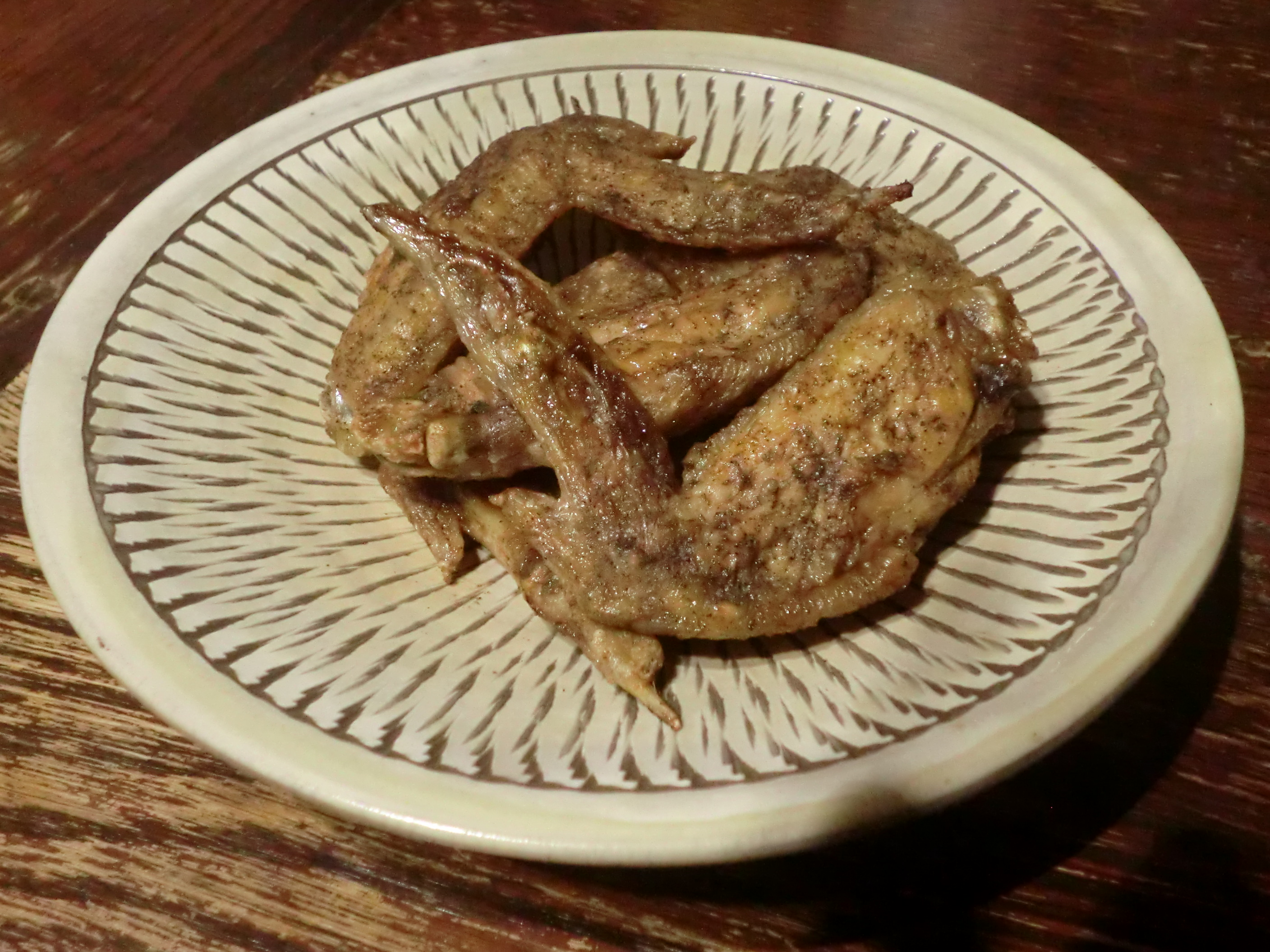 Wing karaage of "Sekai no Yamachan", karaage shop from Nagoya, Japan.